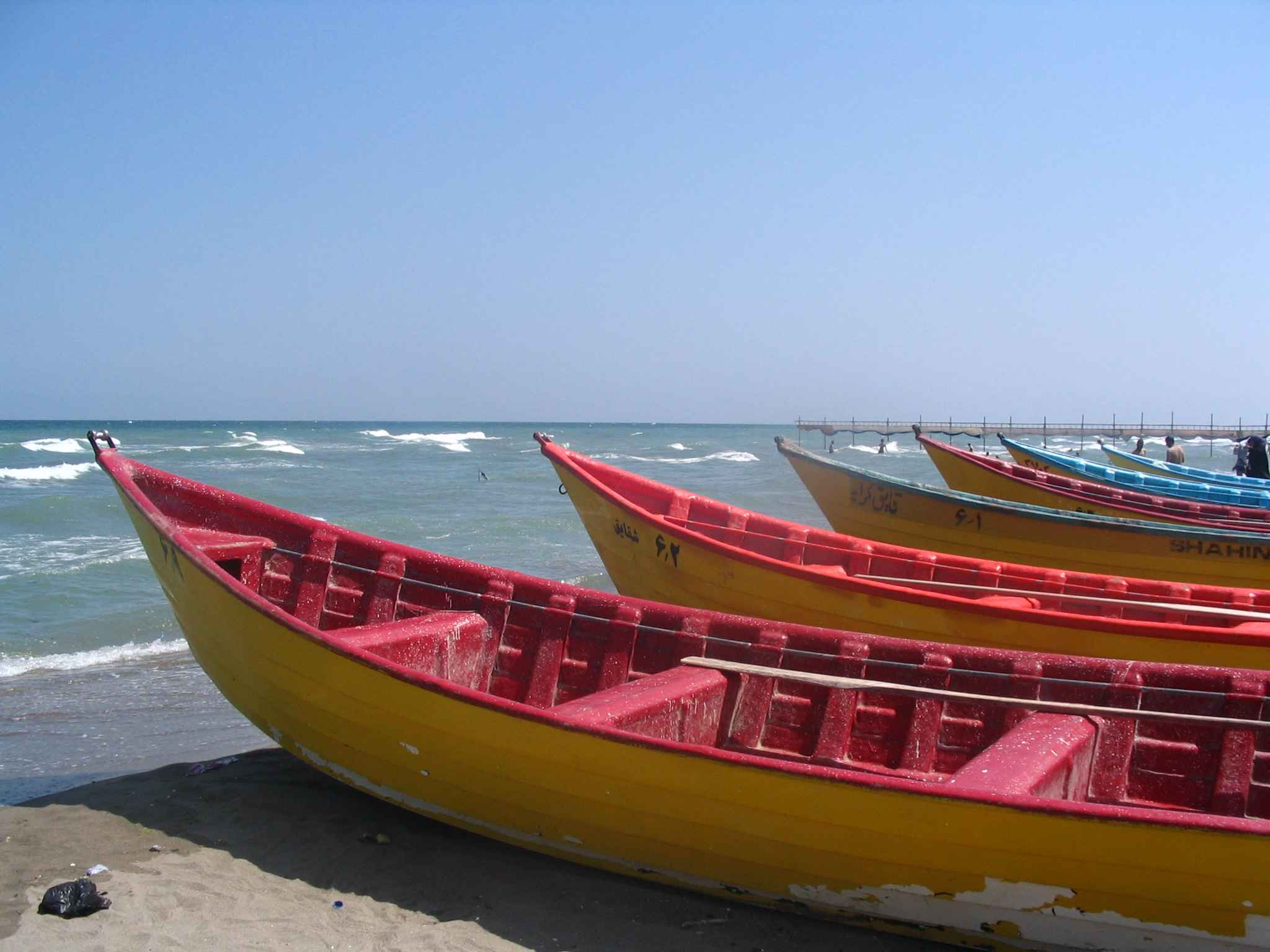 Rental boats at the Caspian Sea beach, Chalus, Iran